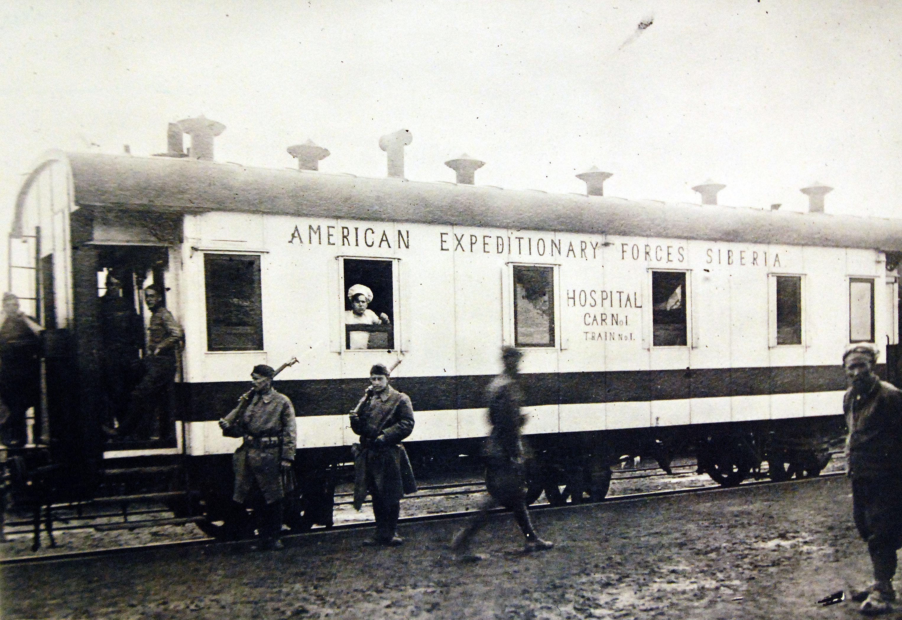 LOT 3029-5 (6789): Russian Intervention, 1918-20. Hospital Car operated by the American Expeditionary Forces at Khabarovsk, north of Vladivostok. American Red Cross Collection. Photograph received November 11, 1919. (5/29/2015).